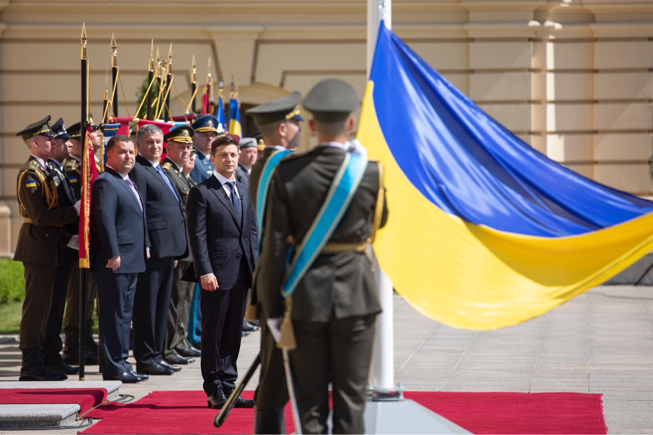 Volodymyr Zelensky presidential inauguration, 20th May 2019